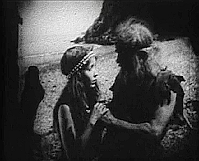 Scene from the American adventure film The Sea Lion (1921) showing Bessie Love (left) and Richard Morris (1862–1924).